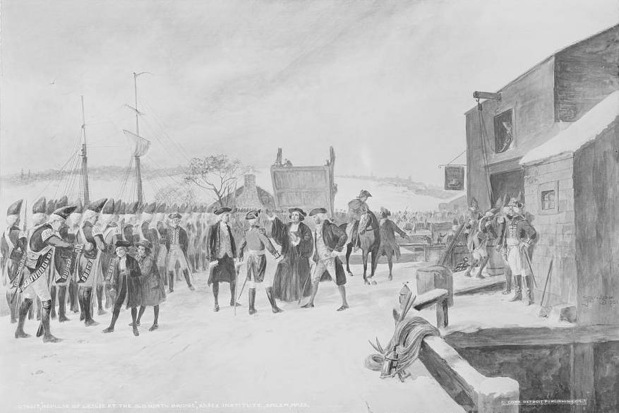 Sketch of Leslie's Retreat in Salem Massachusetts